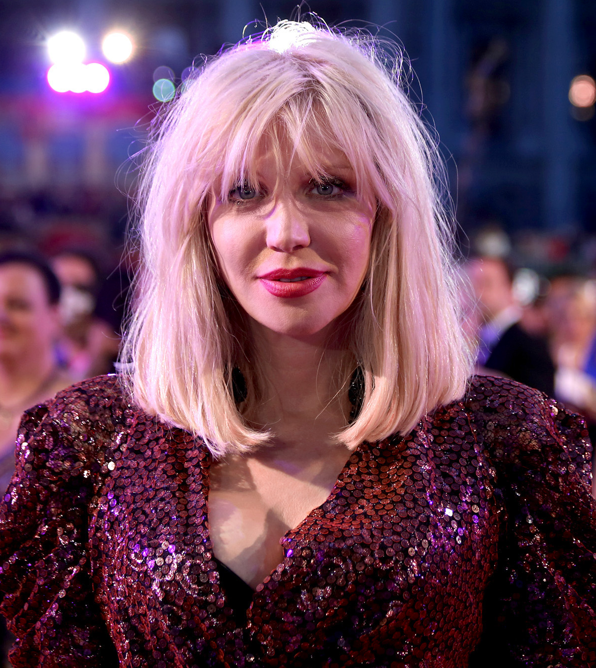 Courtney Love attending Life Ball in Vienna, Austria, May 31, 2014.